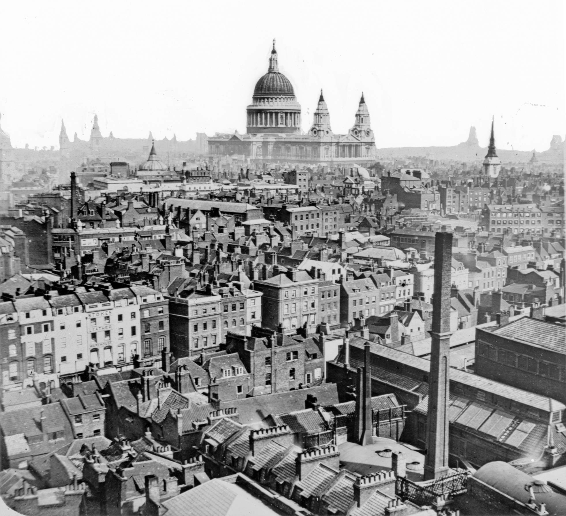 A view over rooftops of London from about 1860-1883. St Paul's Cathedral is seen in the distance.